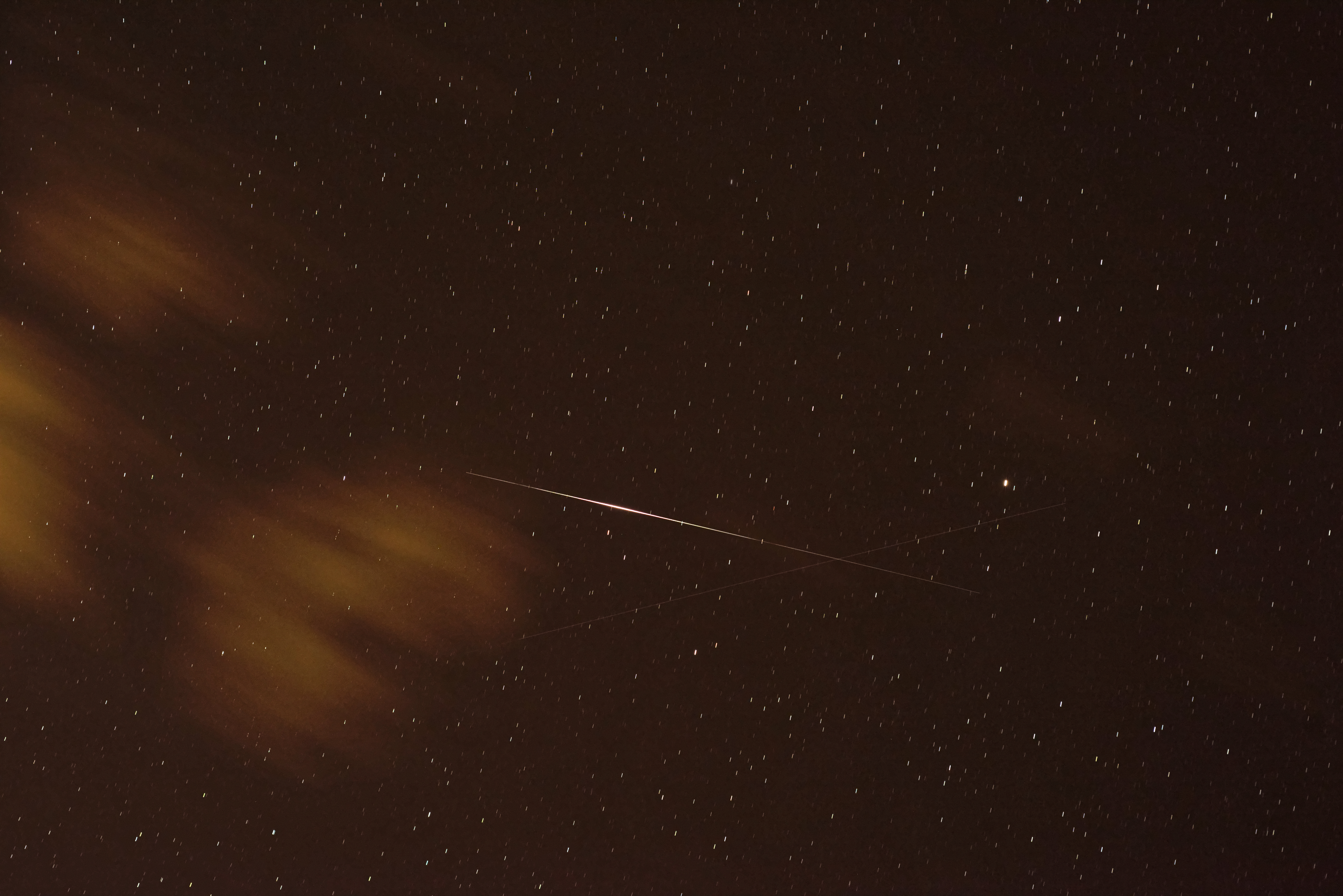 MetOp-A satellite flare, May 26, 2019. It is in Bootes; Arcturus is to the right. A dim satellite also crossed the field of view. Nikon D600, 50mm manual-focus Nikkor f/1.8, ISO 100, f/4, 32 seconds.